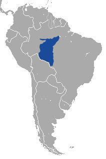 Bare-eared Squirrel Monkey (Saimiri ustus) range